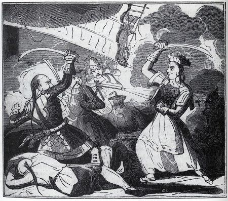 "Pirates: An Illustrated History of Privateers, Buccaneers & Pirates from the Sixteenth Century to the Present" (Londond, 1996). P.230. Book note mentions that, "this fanciful depiction is from History of Pirates of all Nations published in 1836"